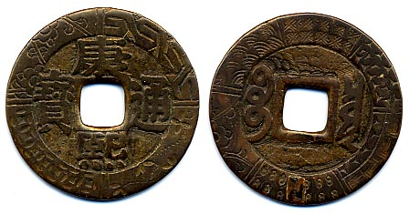 An image of Chinese numismatic charms and amulets provided by Scott Semans.